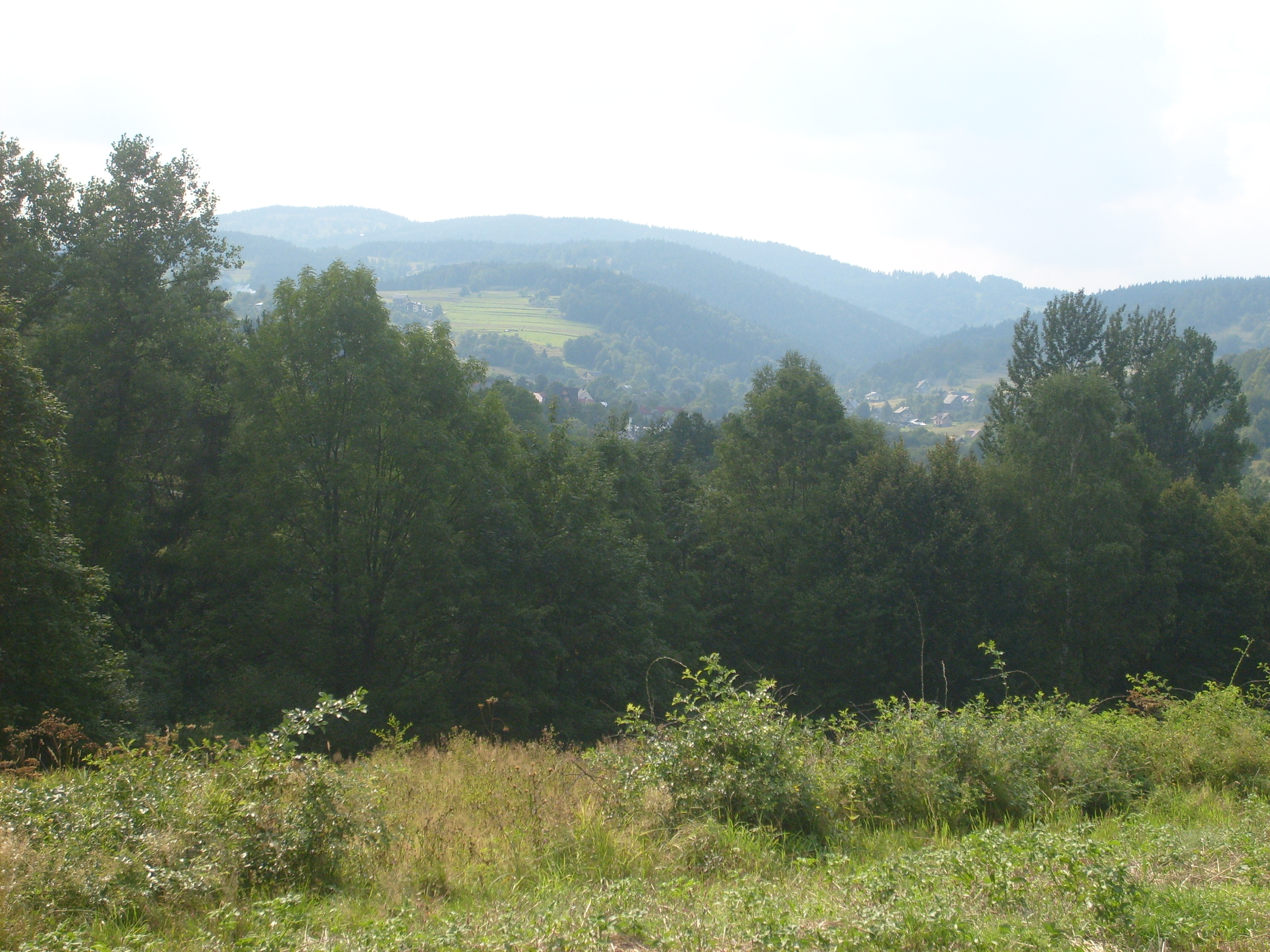 Magurka mountain (The Beskidz, Poland) seen from Grzechynia